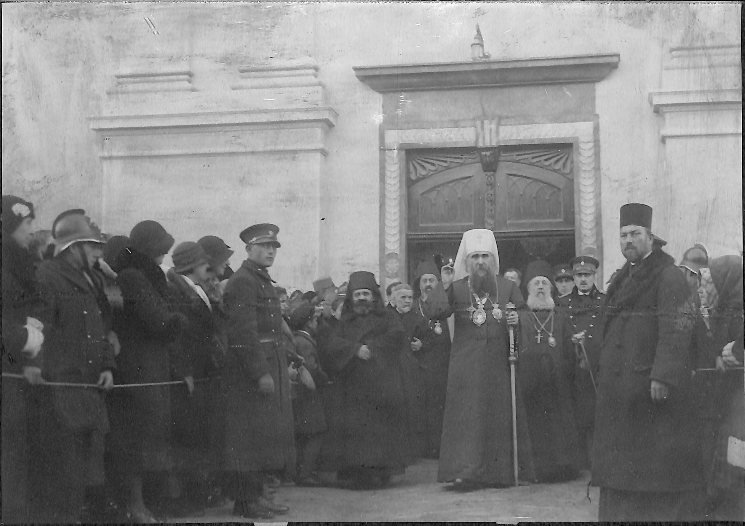 Patriarch Varnava